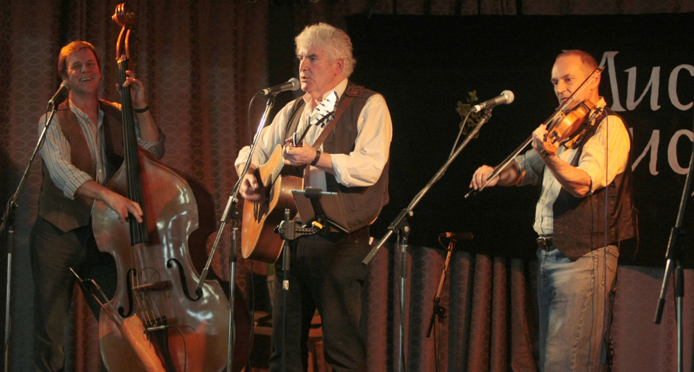 Mucky Duck at CD/Book launch, Fairbridge Festival, April 26, 2014